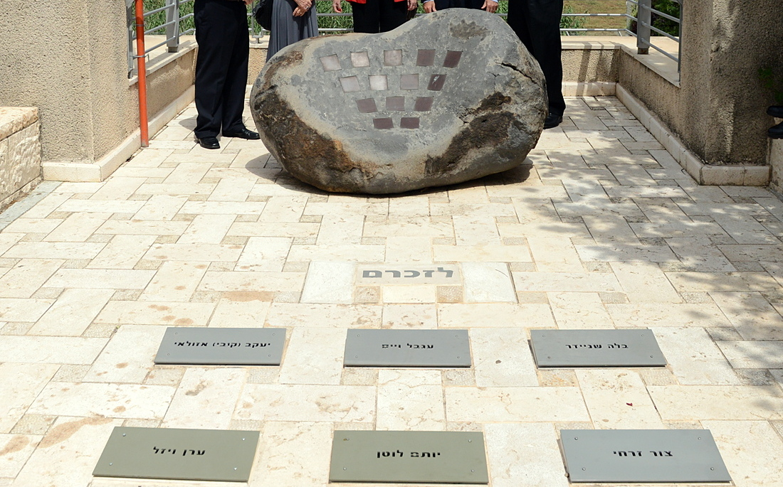 Ambassador Shapiro Connects with Future Leaders in the Yezraeel Valley